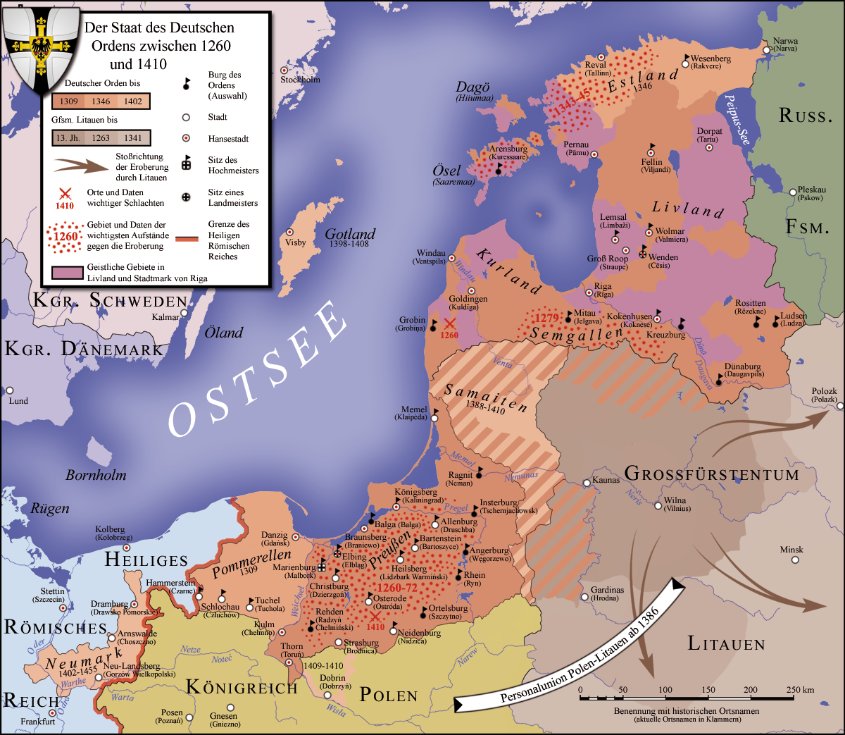 Map of the monastic state of the Teutonic Knights 1410